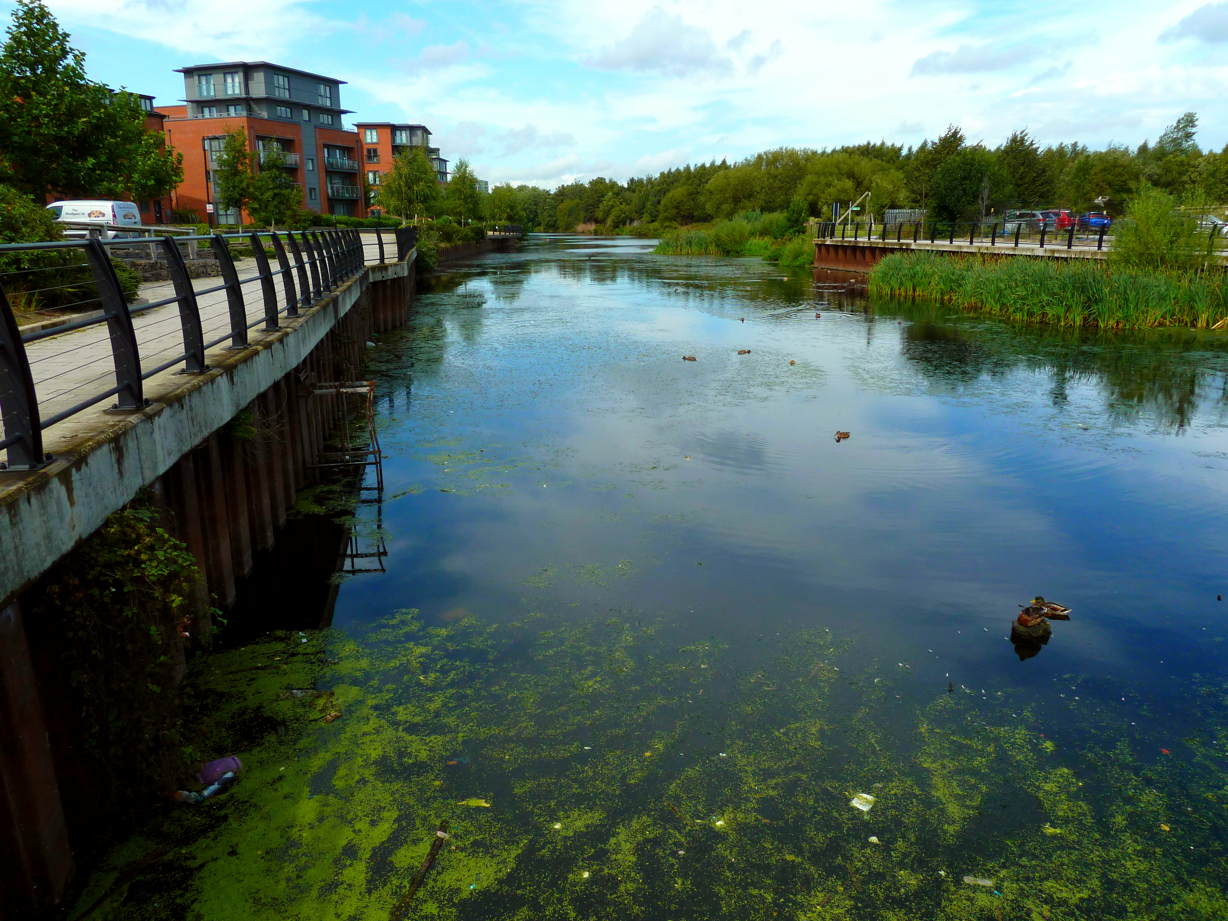 The Old Mill Dam, Hunslet, West Yorkshire, England. It lies between the River Aire and the site of an old flax mill which is now replaced by modern housing. The dam provided headwater for the mill's waterwheel. This the site where the body of James Richardson was found in 1882. He had been robbed, and possibly murdered. See Trial of Mary Fitzpatrick